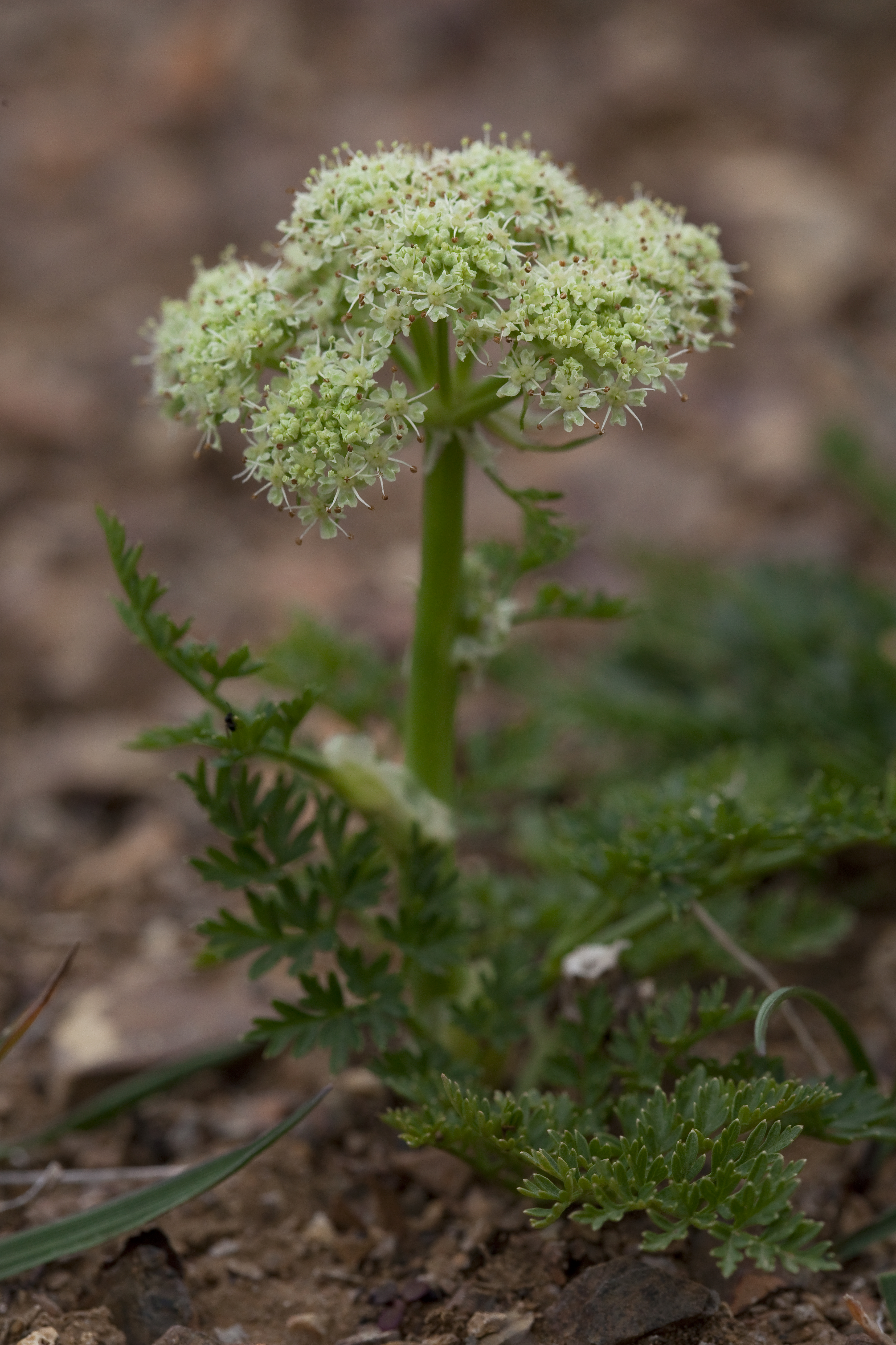 Jakutsk snowparsley (Cnidium cnidiifolium), Denali National Park and Preserve, AK, USA